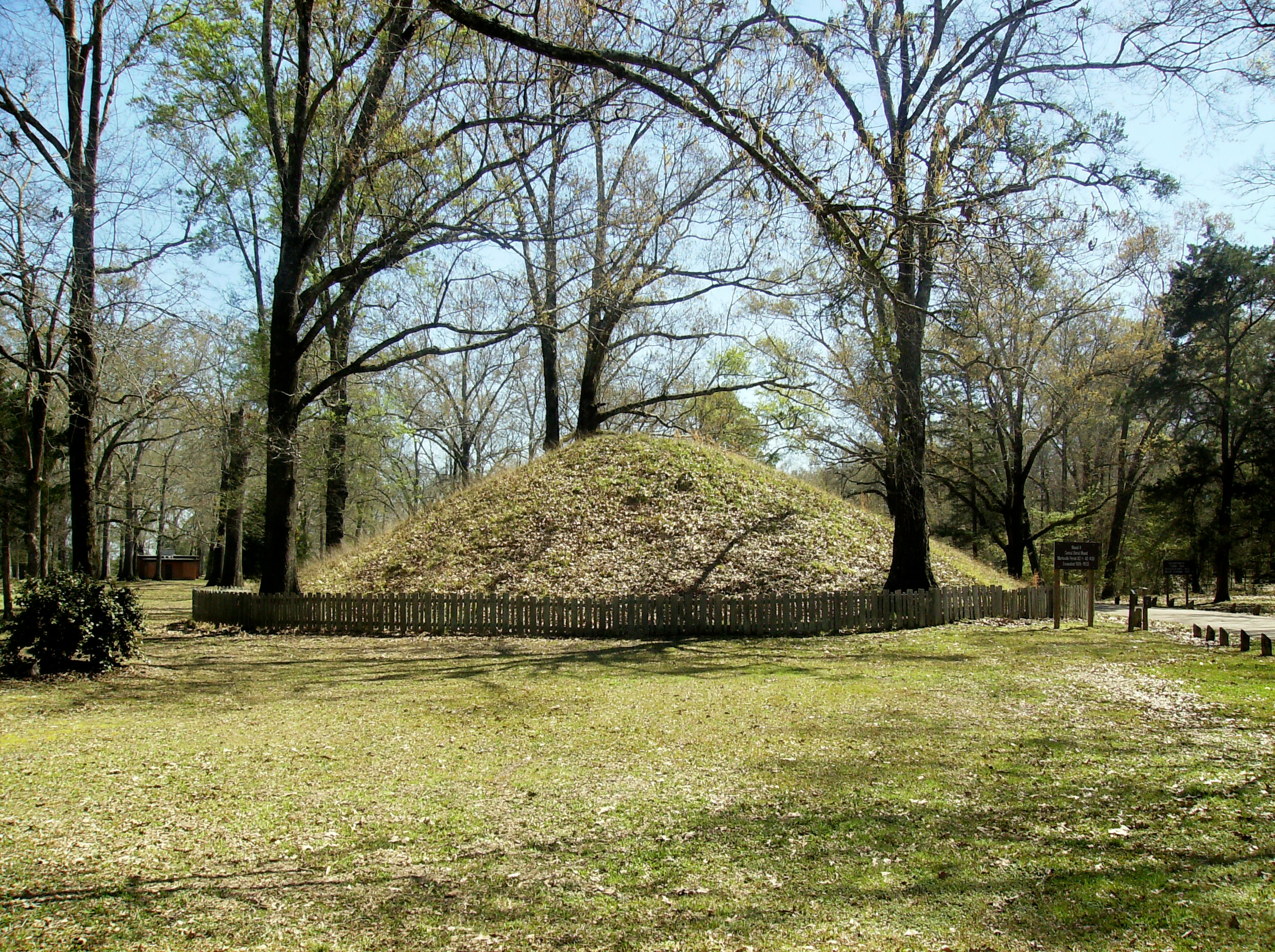 A conical burial mound at the Marksville State Historic Site in Marksville, Louisiana, the type site for the Marksville culture.